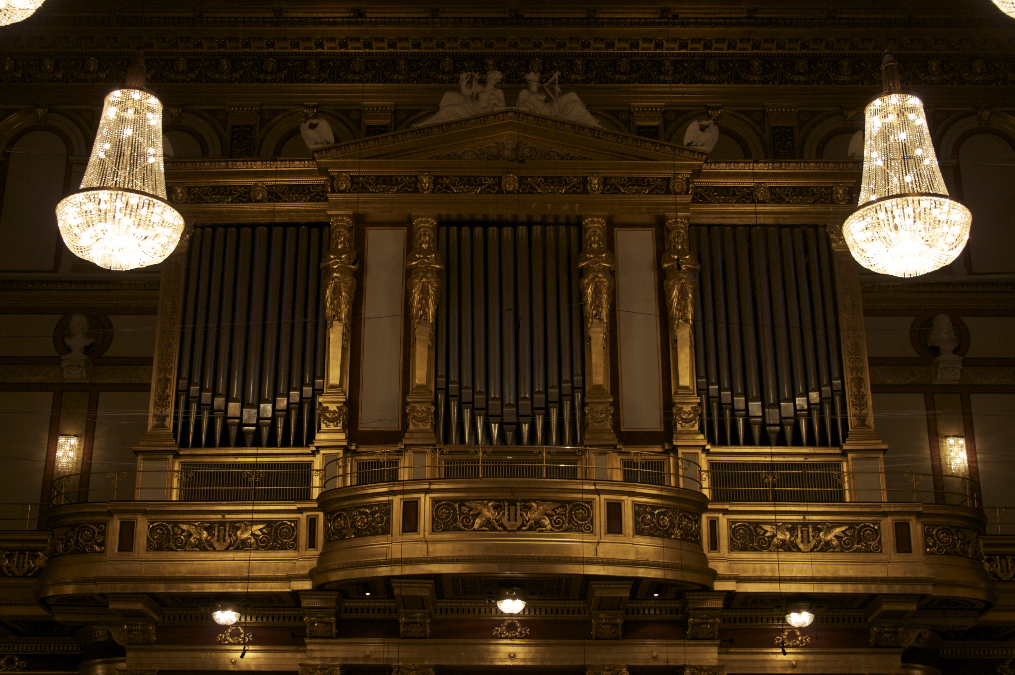 Wiener Musikverein